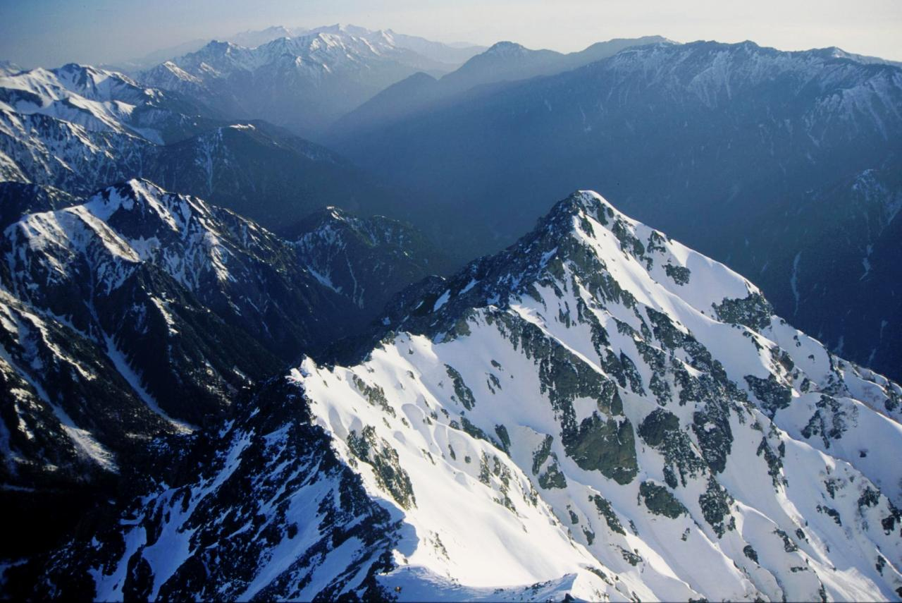 Kitakamadoppyo_from_Mount Yari